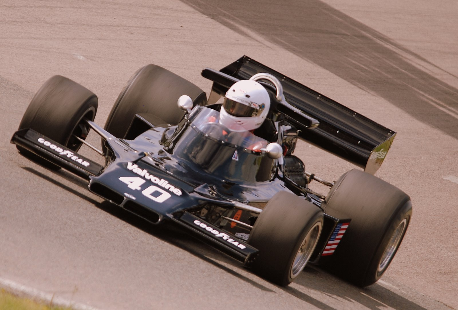 A 1976-spec Shadow DN5, on test at Mallory Park, September 2007.